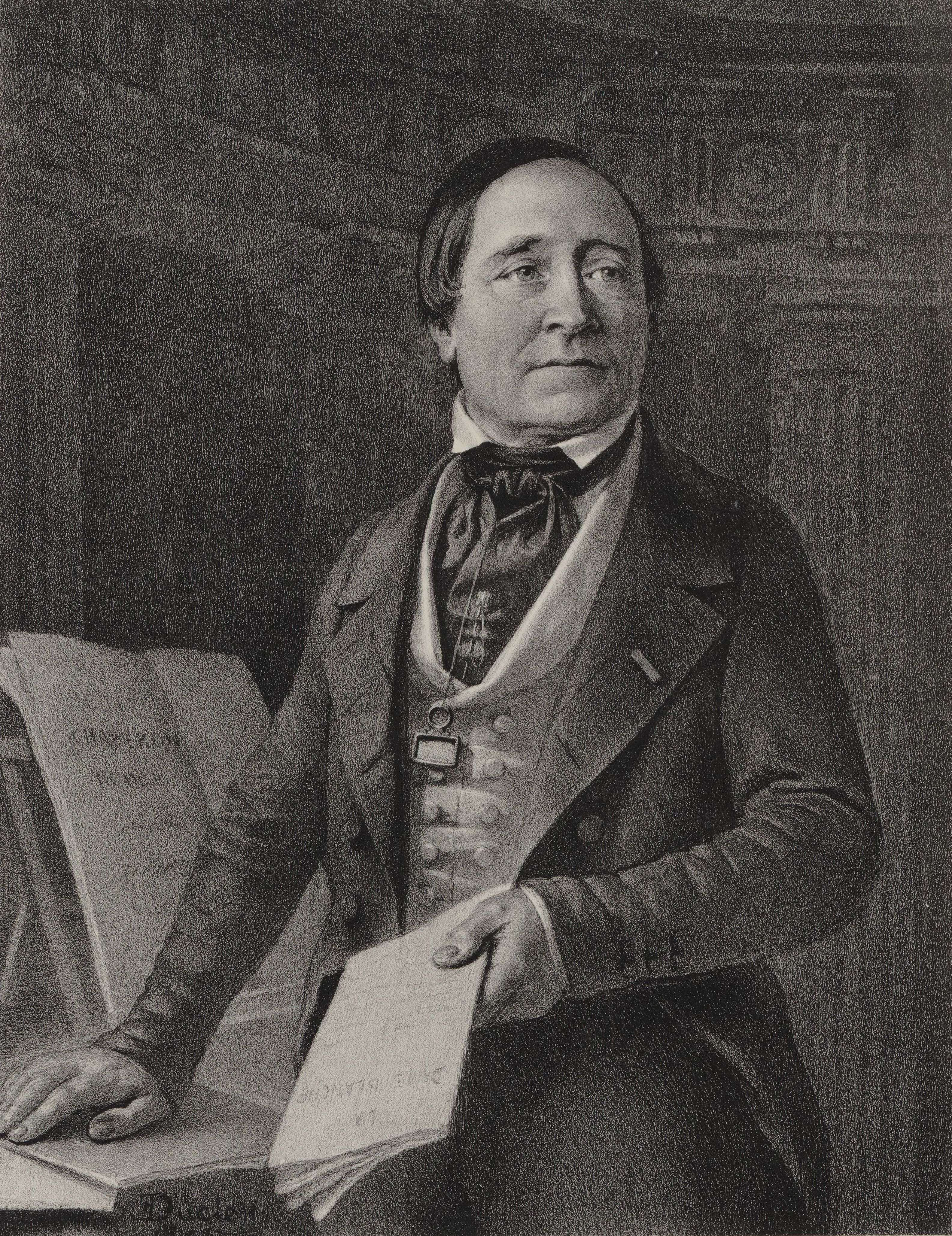 French opera singer and music teacher Louis-Antoine-Éléonore Ponchard (1787-1866).